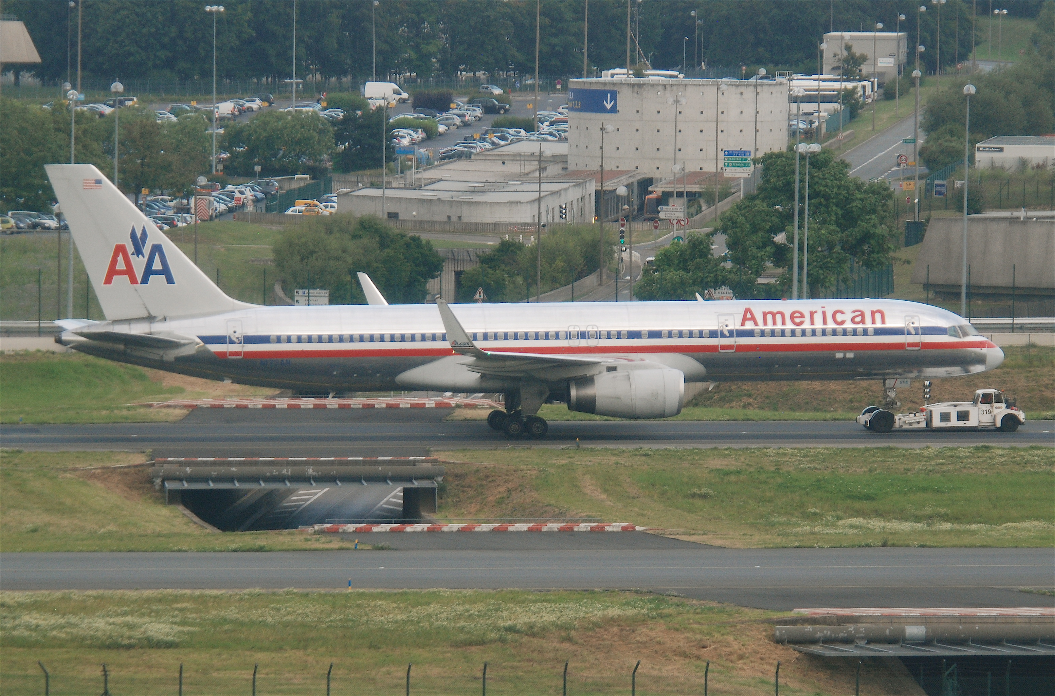 American Airlines Boeing 757-223; N173AN@CDG;10.07.2011/605ax